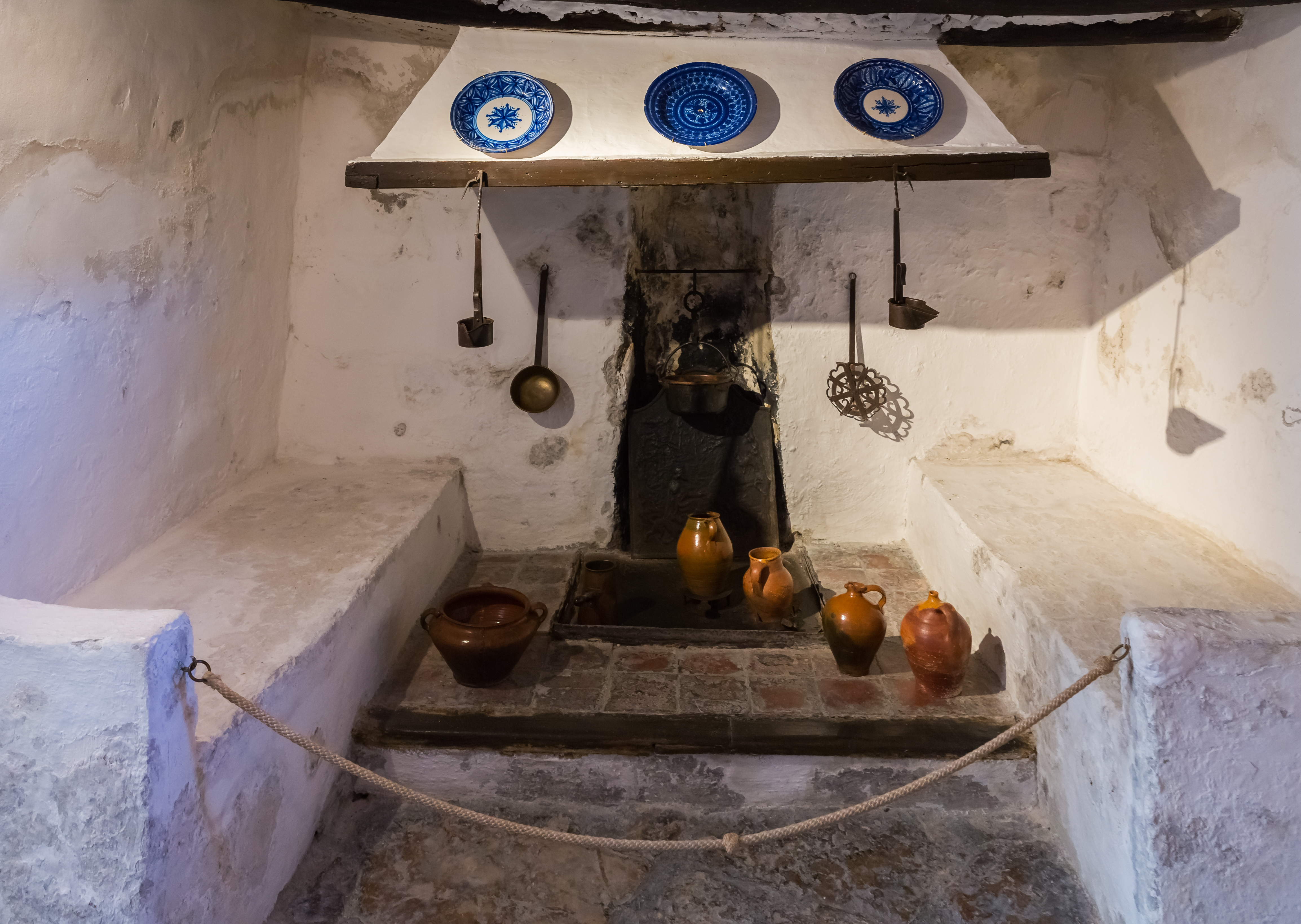 Birth house of Francisco Goya, Fuendetodos, Zaragoza, Spain